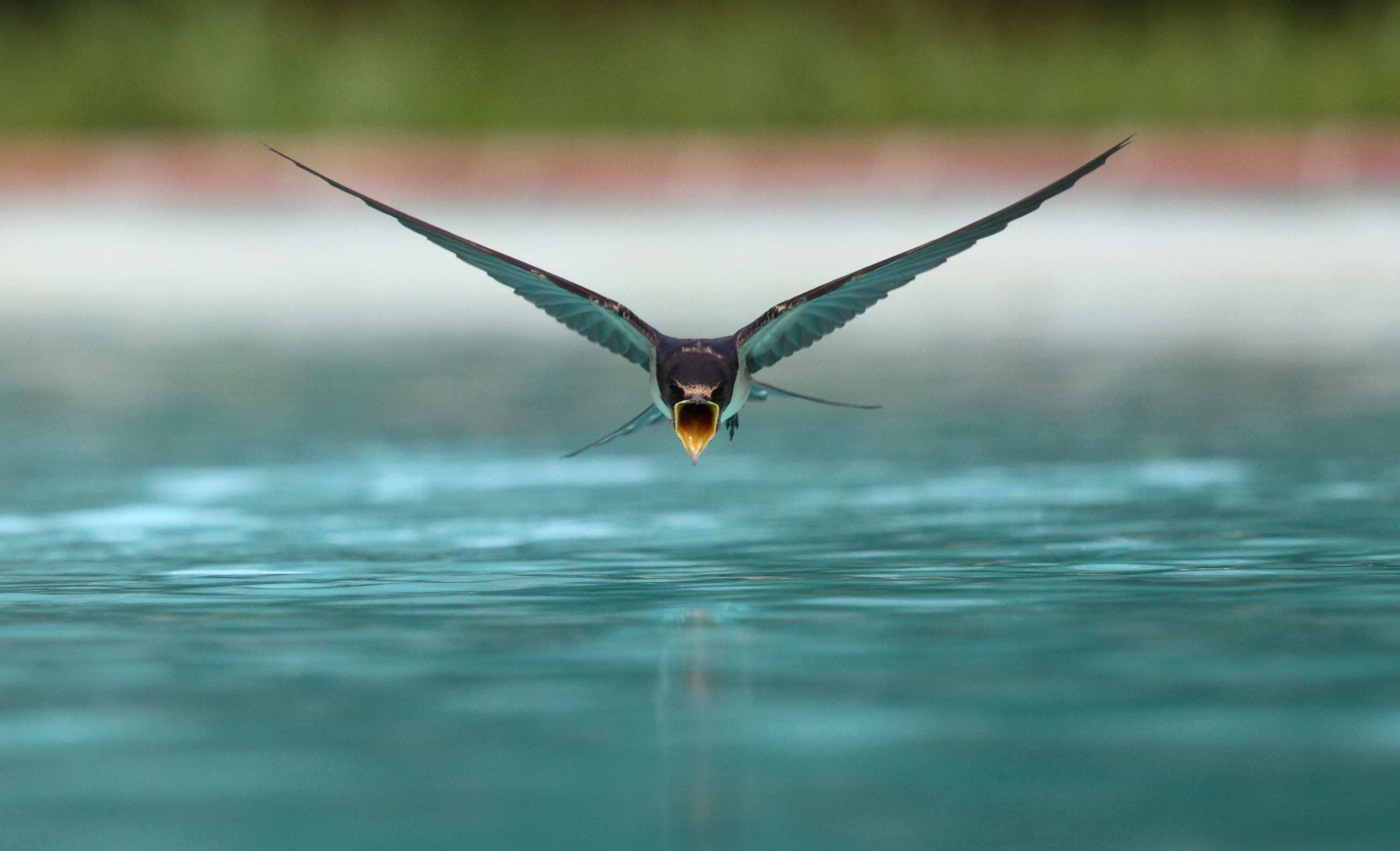 A swallow drinking while flying over a swimming pool.